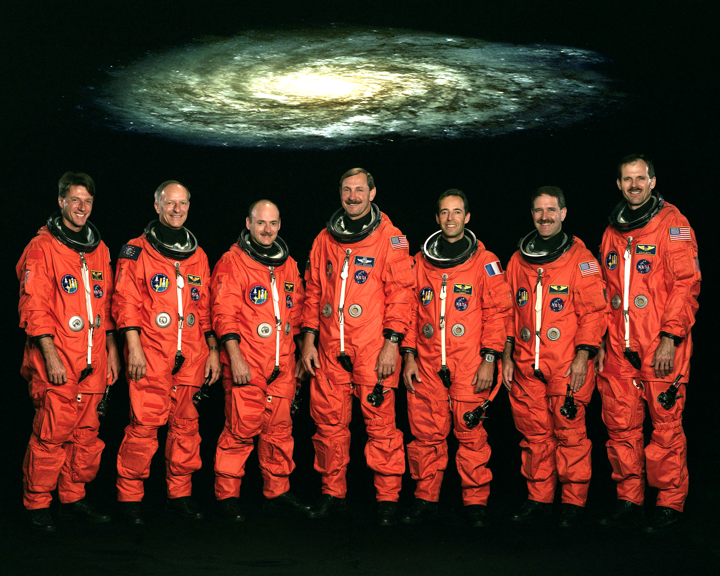 These seven astronauts have been assigned as crew members for NASA's third servicing mission to the Hubble Space Telescope (HST). They are, from the left, astronauts C. Michael Foale, Claude Nicollier, Scott J. Kelly, Curtis L. Brown, Jr., Jean-Francois Clervoy, John M. Grunsfeld and Steven L. Smith. Brown and Kelly are commander and pilot, respectively. All the others are mission specialists (MS), with international MS Nicollier and Clervoy representing the European Space Agency (ESA).